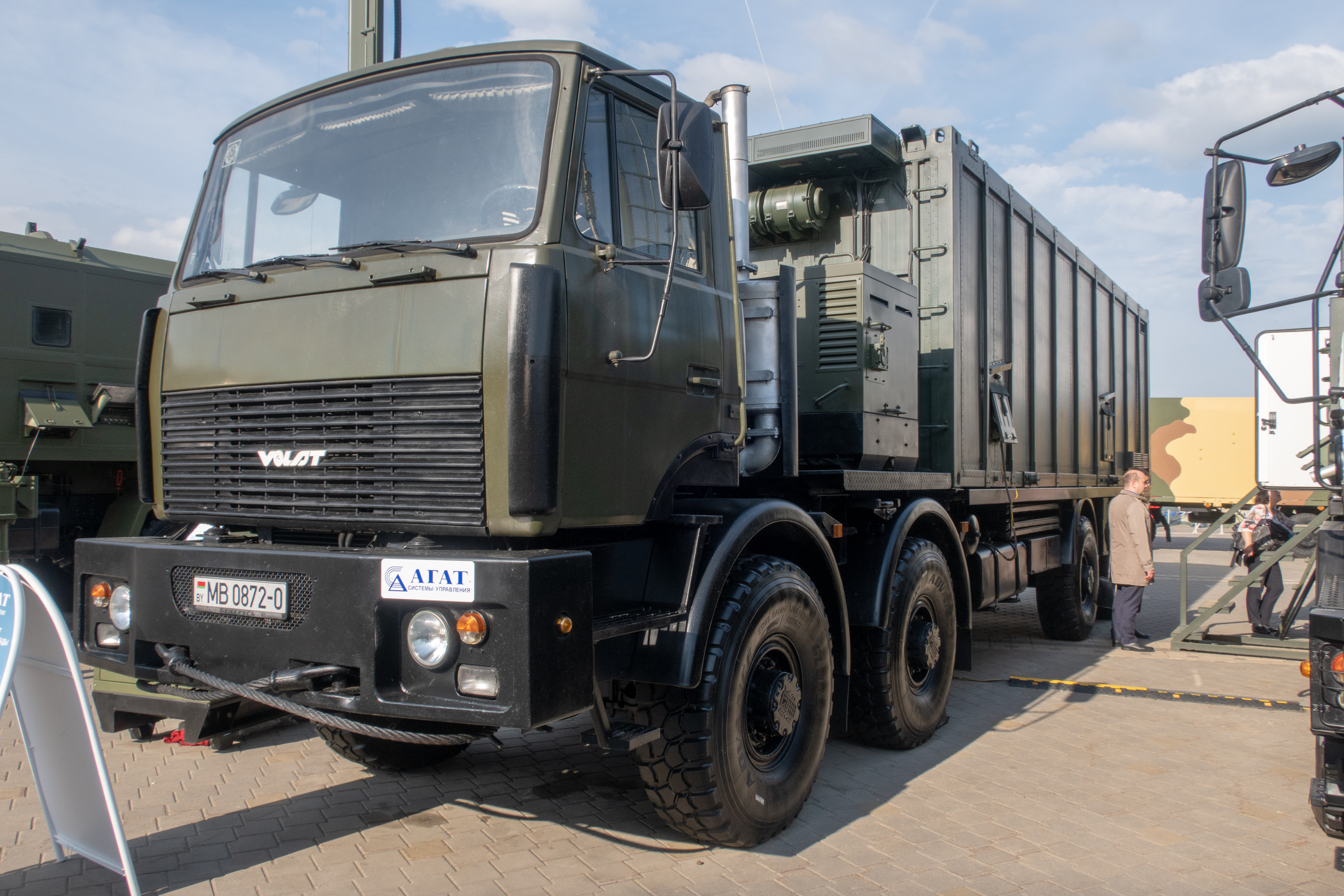 Milex-2019 arms and military machinery exposition (Minsk, Belarus). MZKT-652720